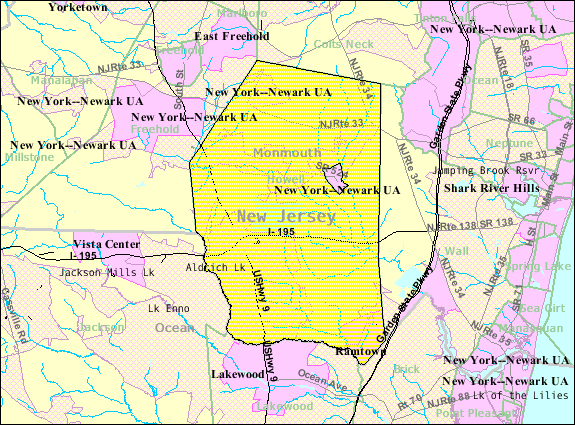 Census Bureau map of Howell Township